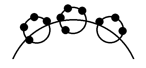 shows global network topology of herbivore